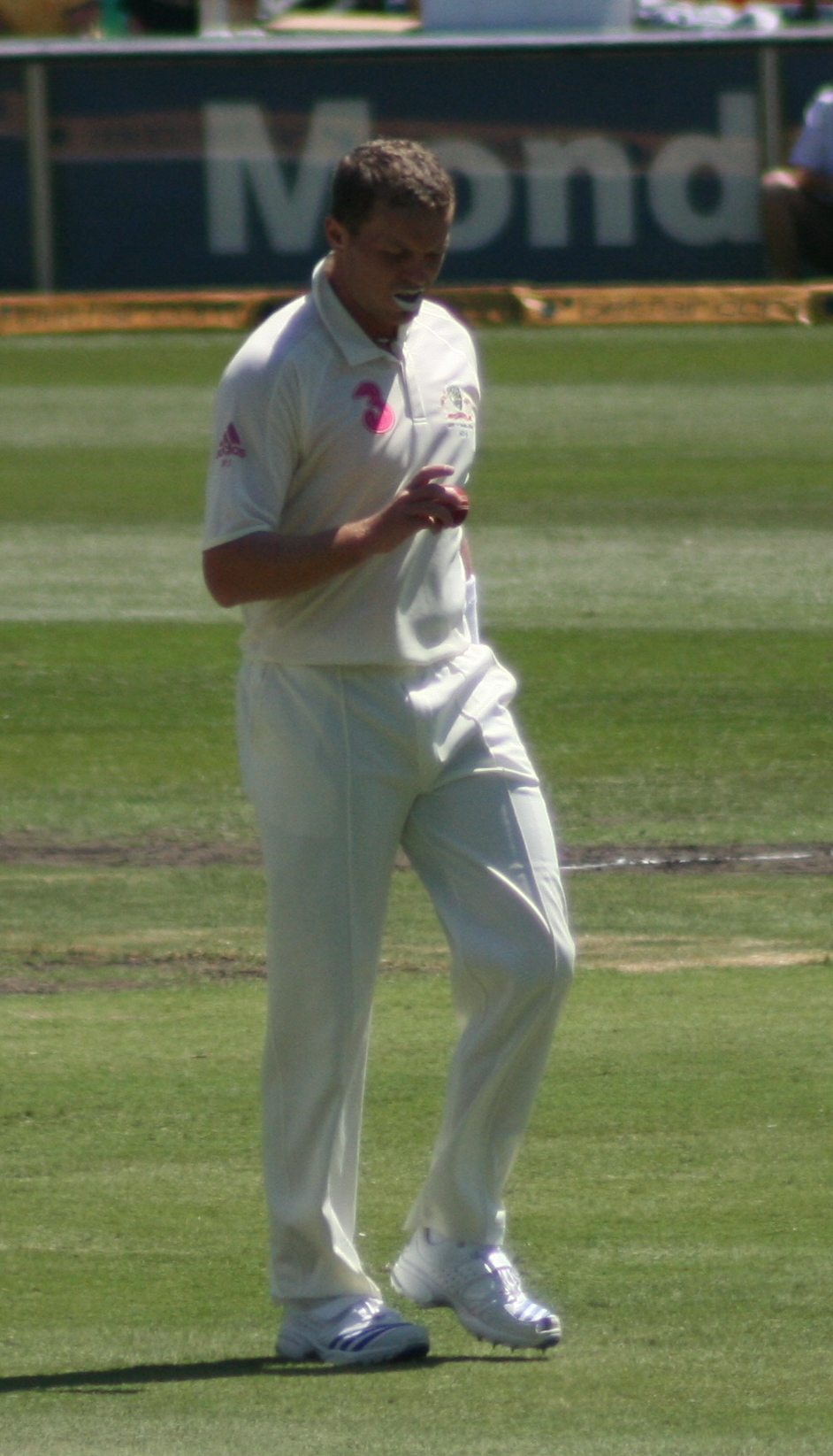 Peter Siddle, at the SCG vs. South Africa in January 2009